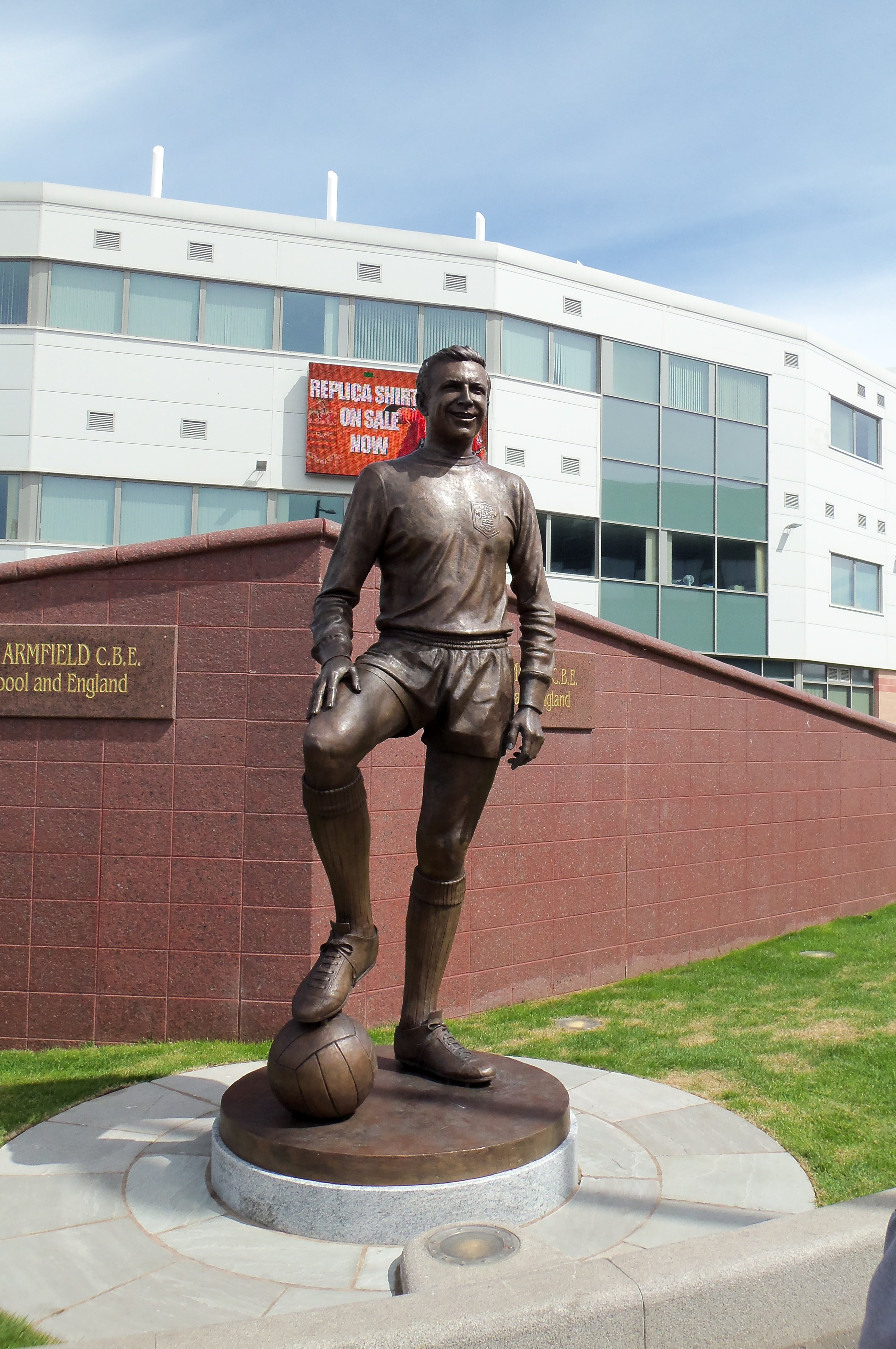 Jimmy Armfield Statue, Bloomfield Road, Blackpool